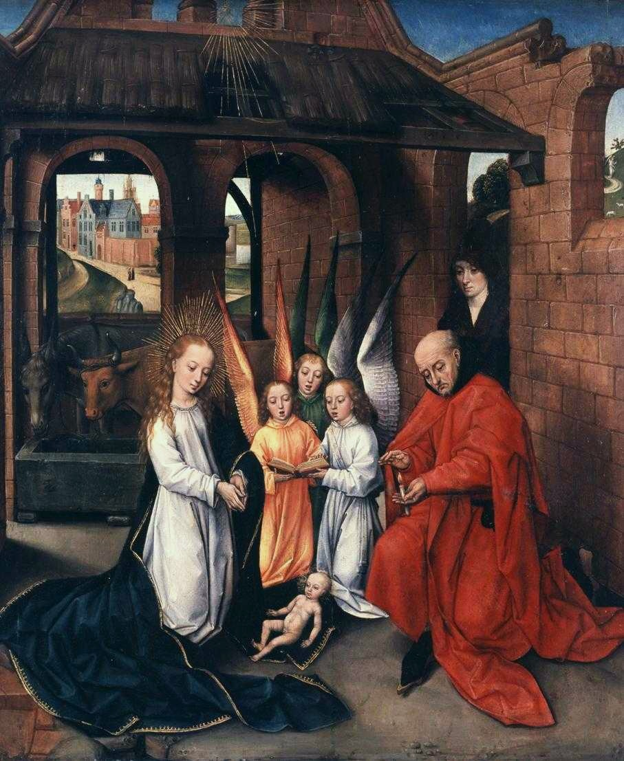 The composition is based on a vision of St. Bridget of Sweden